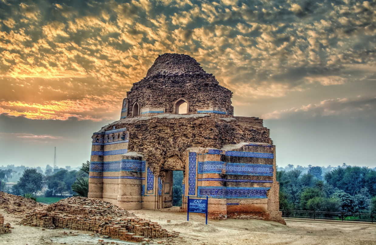 Shrine of Baha'al-Halim This is a photo of a monument in Pakistan identified as the PB-19